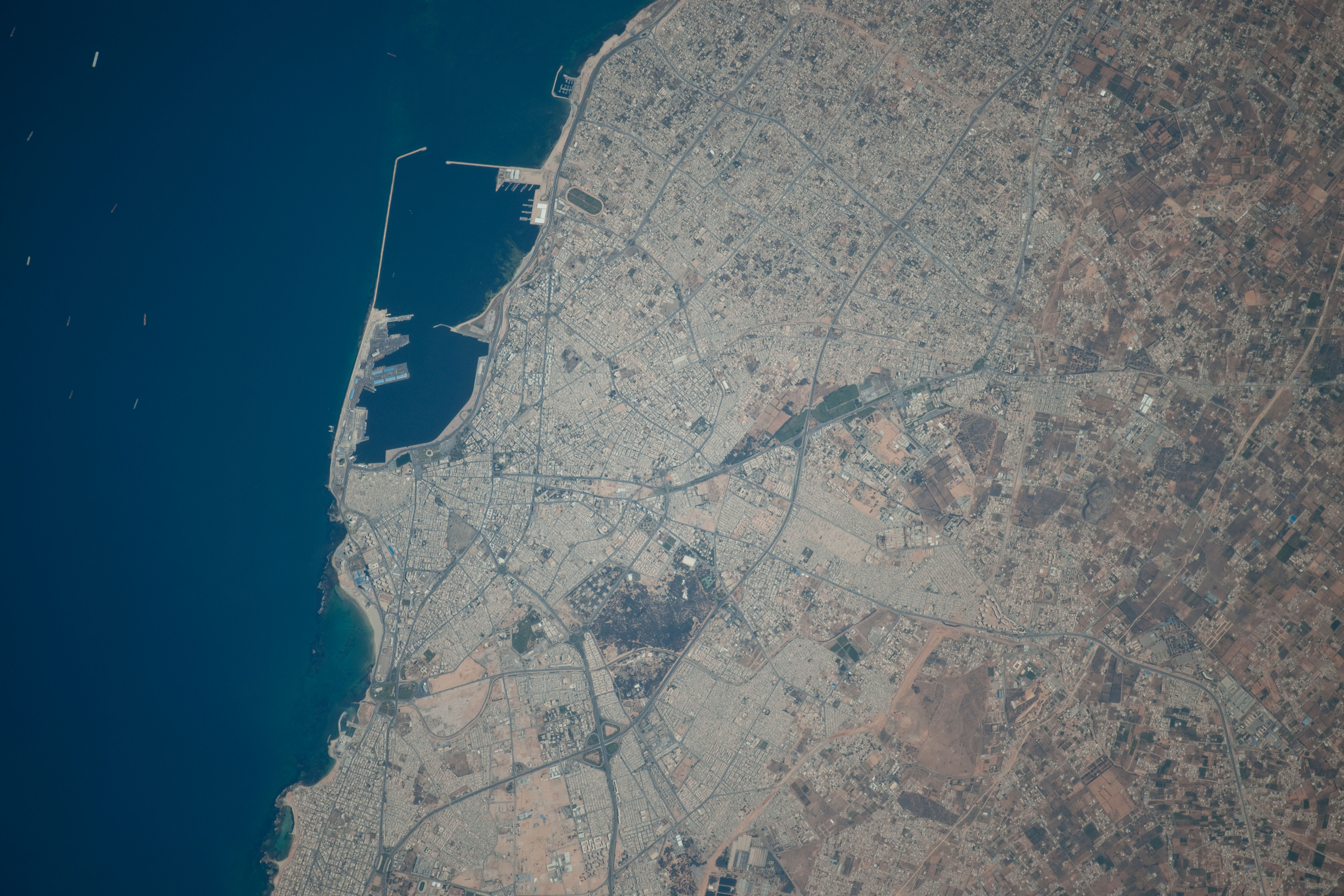 Astronaut Photo of Tripoli, Libya taken from the International Space Station (ISS) during Expedition 23 on March 21, 2010.